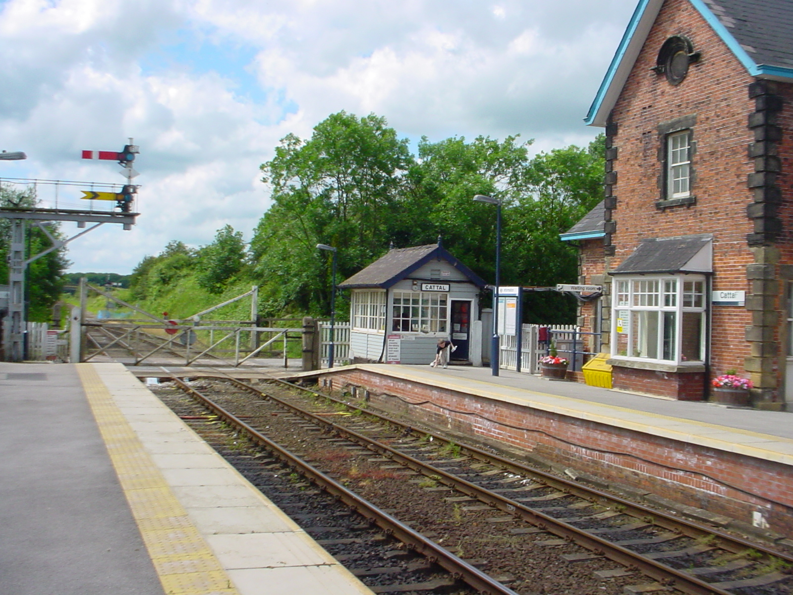 Cattal railway station, North Yorkshire, England. Taken Summer 2002. A delightfully un-modernised station with semaphore signals, hand operated road gates, and point rodding.